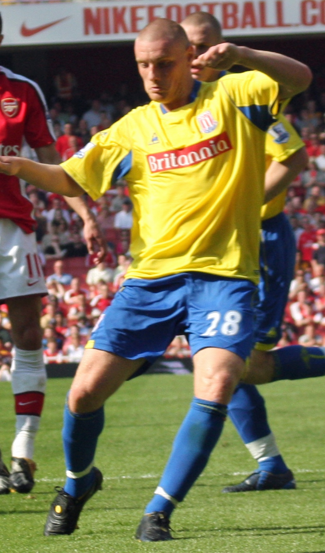 Andy Wilkinson during an Arsenal vs Stoke City match in May 2009. This file has been extracted from another file: Arsenal v Stoke City FC - Andrey Arshavin.jpg